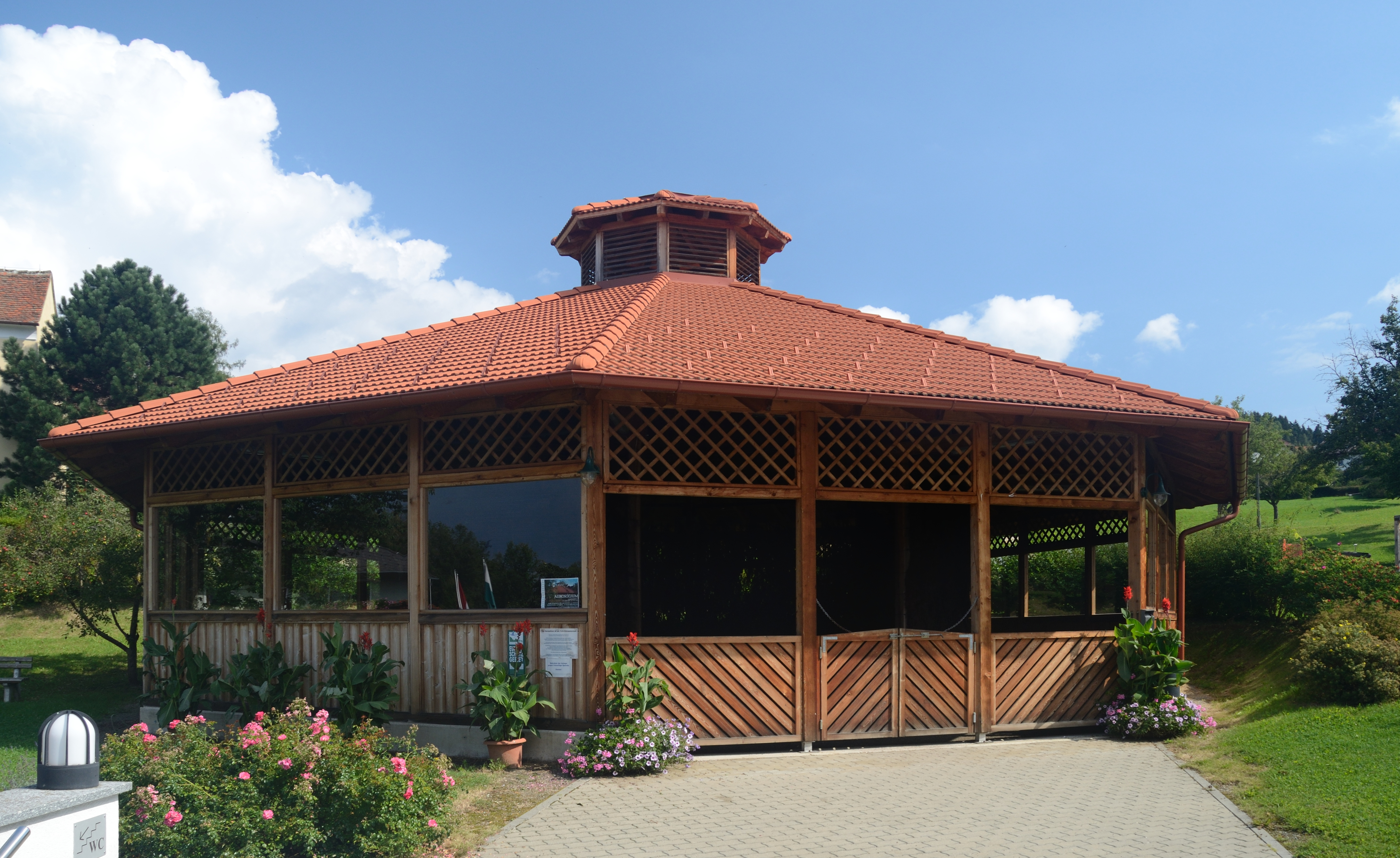 The Aerosolium at Sankt Lorenzen am Wechsel, Styria.